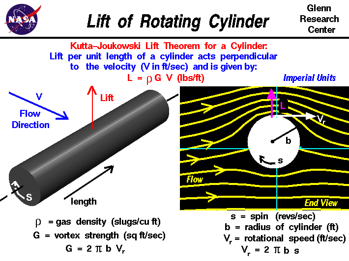 This diagram shows the physics behind the operation of a Flettner Rotor.